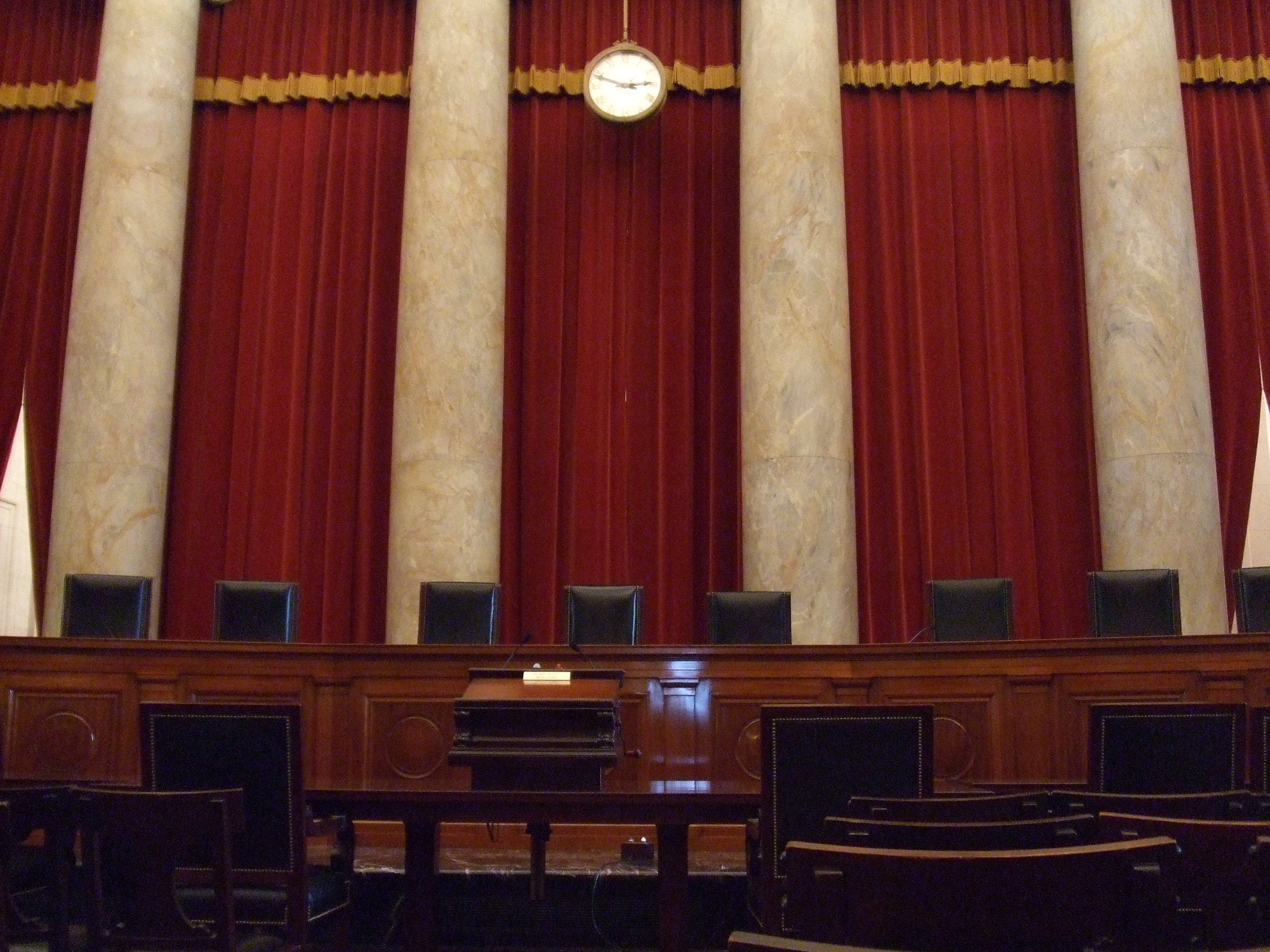 A picture, taken by me in July of 2007 of the interior of the United States Supreme Court building